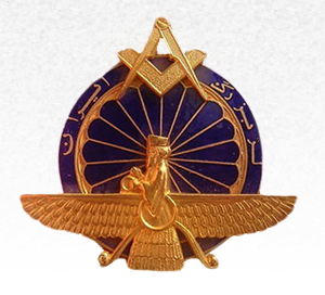 Iran Grand Lodge